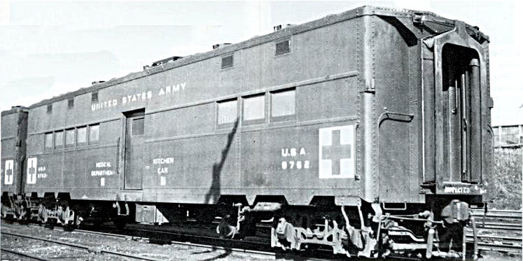 U.S. Army Troop Kitchen Car #8762, at the Lafayette, Indiana shops of the Monon Railway on April 17, 1947. Taken by the collection of the Farm Security Administration - Office of War Information at the Library of Congress.